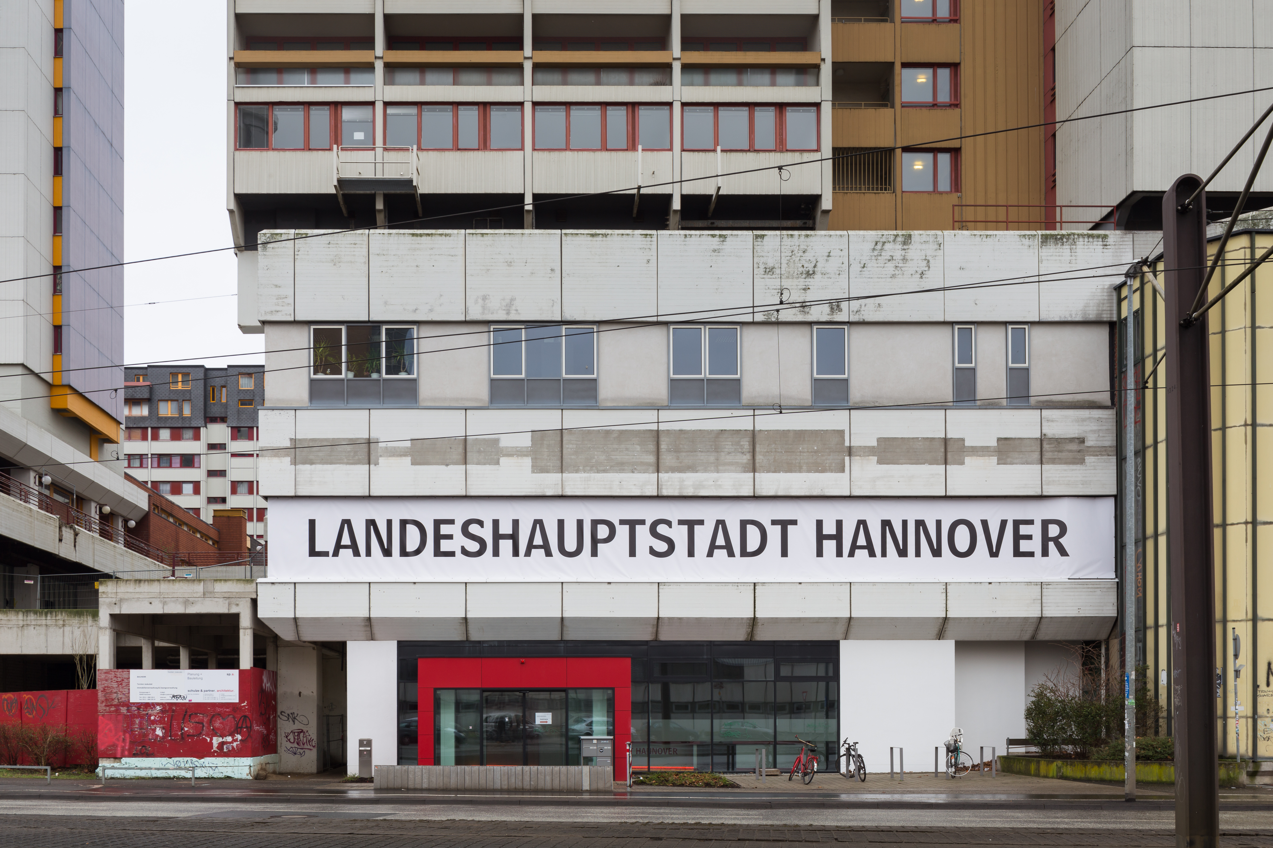 Apartment complex Ihme-Zentrum in Linden-Mitte quarter of Hannover, Germany. Facade of building Spinnereistrasse no. 1 towards Spinnereistrasse.